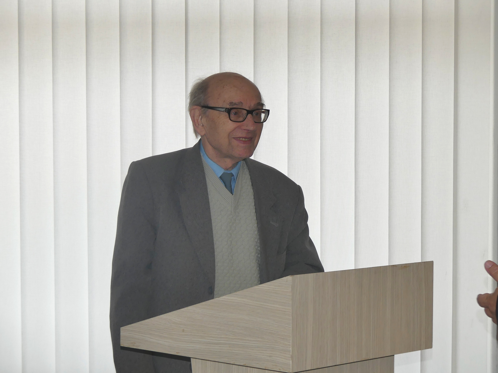 German historian Dr. Peter Hoffmann (born 1924) at a conference, 2016